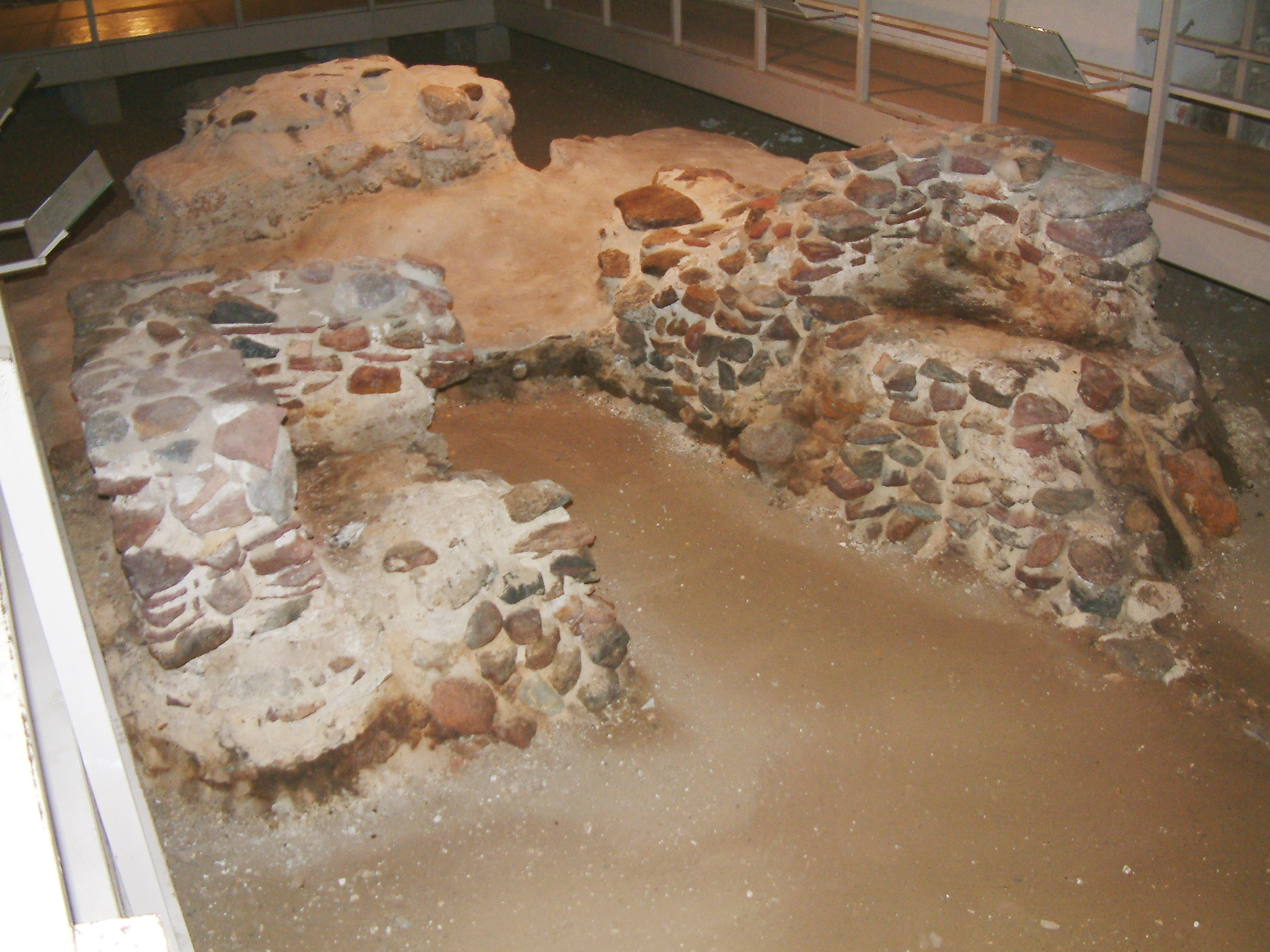 Remanents of grave of Bolesław Chrobry, underground of Poznań Archcathedral Basilica of St. Peter and St. Paul